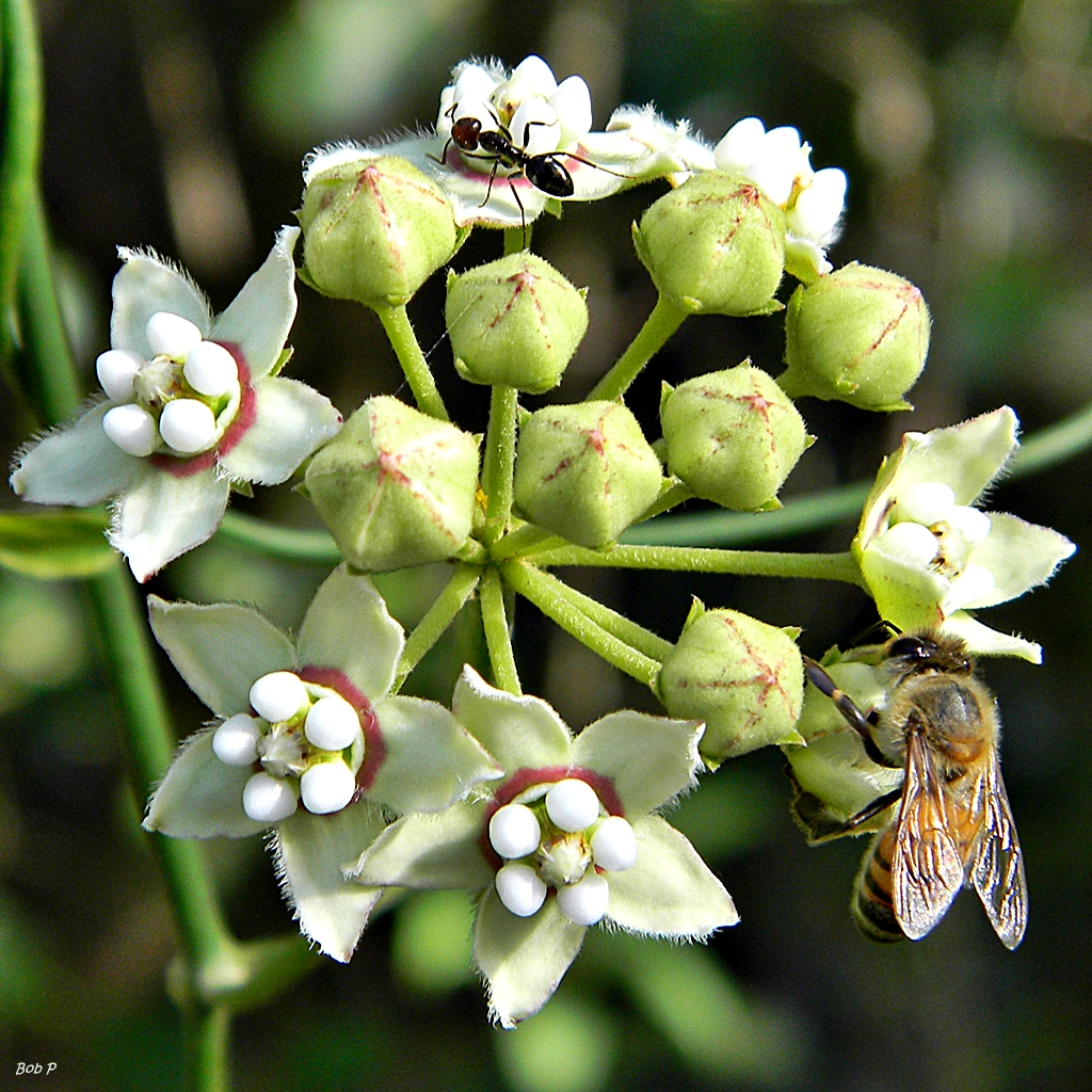 A windy day forced me deep into the small neighborhood cypress swamp where my friend Bee showed me that the white twinevine was in bloom. These skinny green vines produce heads of 10mm flowers that are much loved by bees, ants and other citizens of this little swamp. White twinevine is a member of the milkweed family.